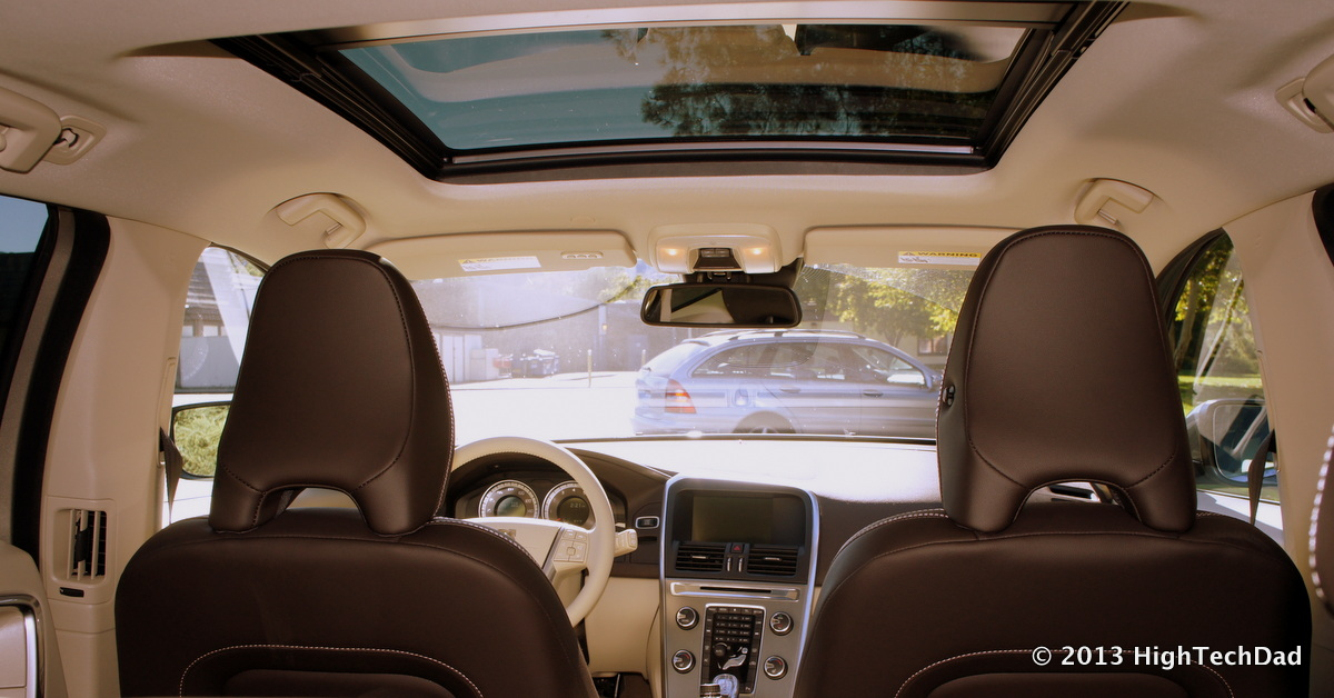 Photos from a 7-day test drive of the 2013 Volvo XC60. More information can be found at